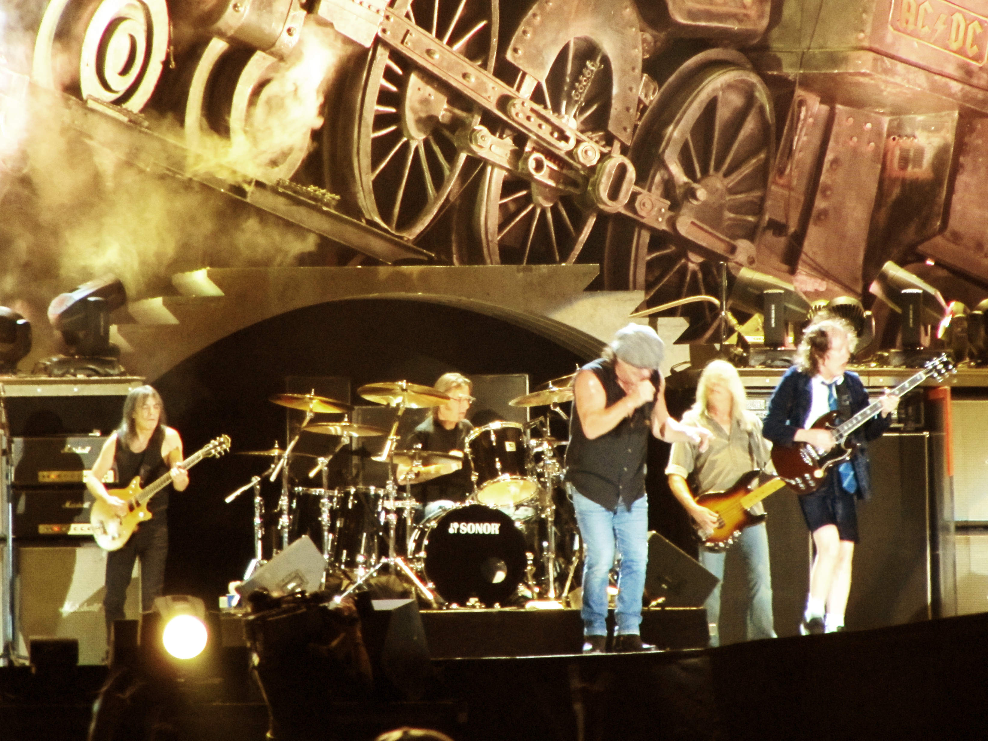 AC/DC Argentina 2009 - Estadio Monumental, Buenos Aires. Live at River Plate. Black Ice World Tour.